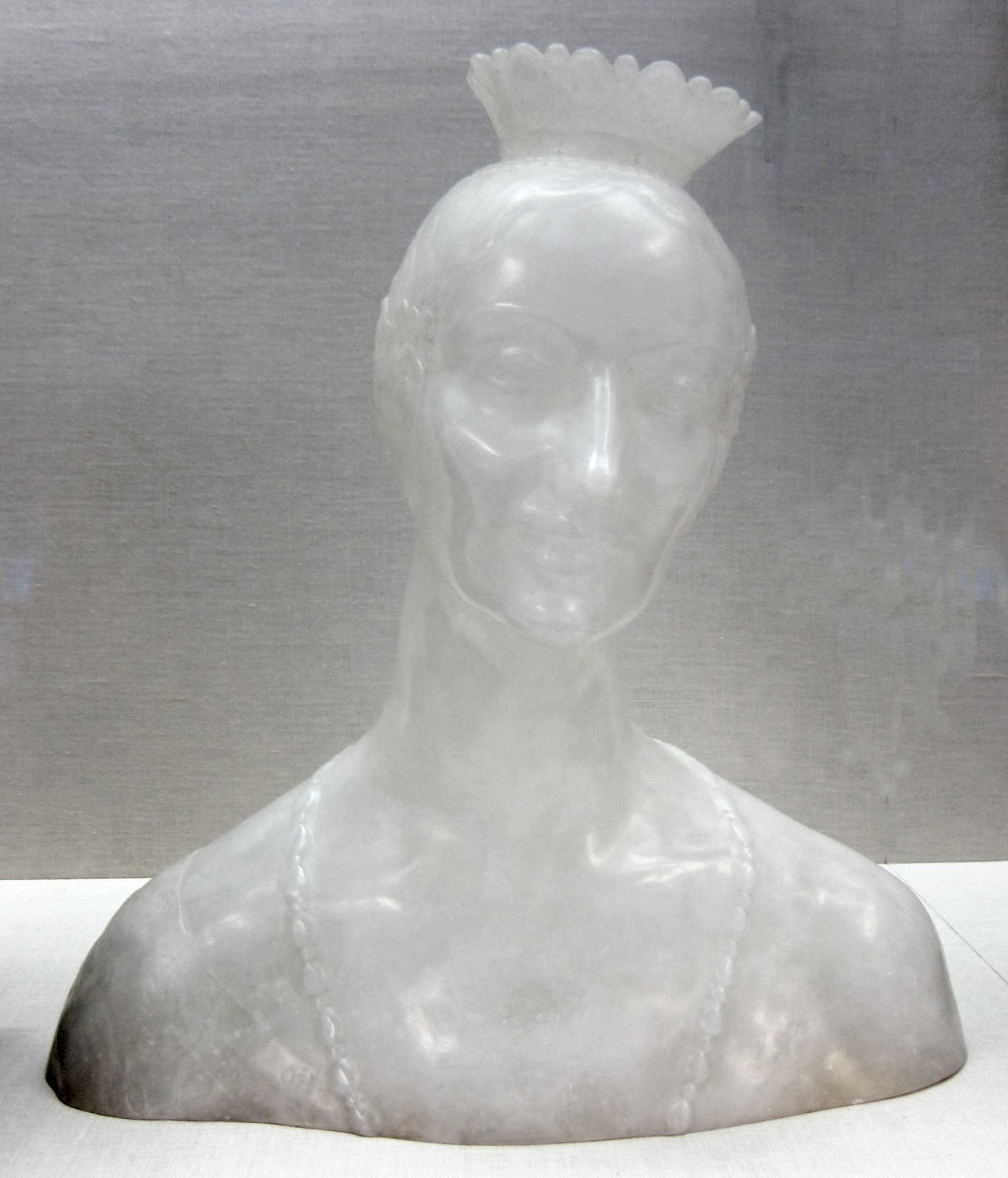 Alabaster bust of Marie Elsie Whelen Clews by Henry Clews, Jr. (1876-1937), 1917, Pennsylvania Academy of the Fine Arts